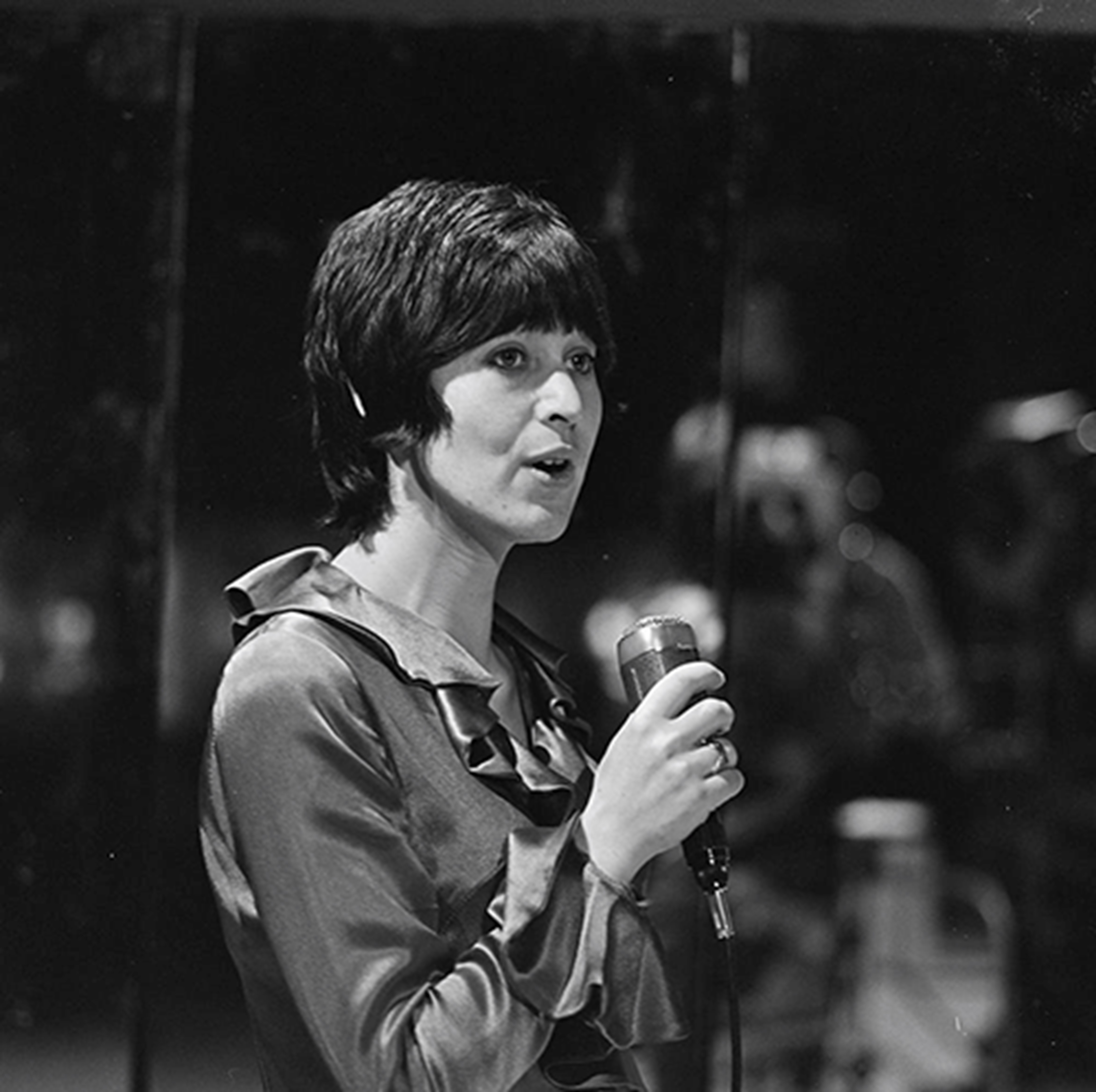 Sharon Tandy. Dutch TV programme Fenklup, 9 February 1968